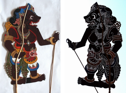 Ranes, wayang kulit figure from the epos Serat Menak Sasak